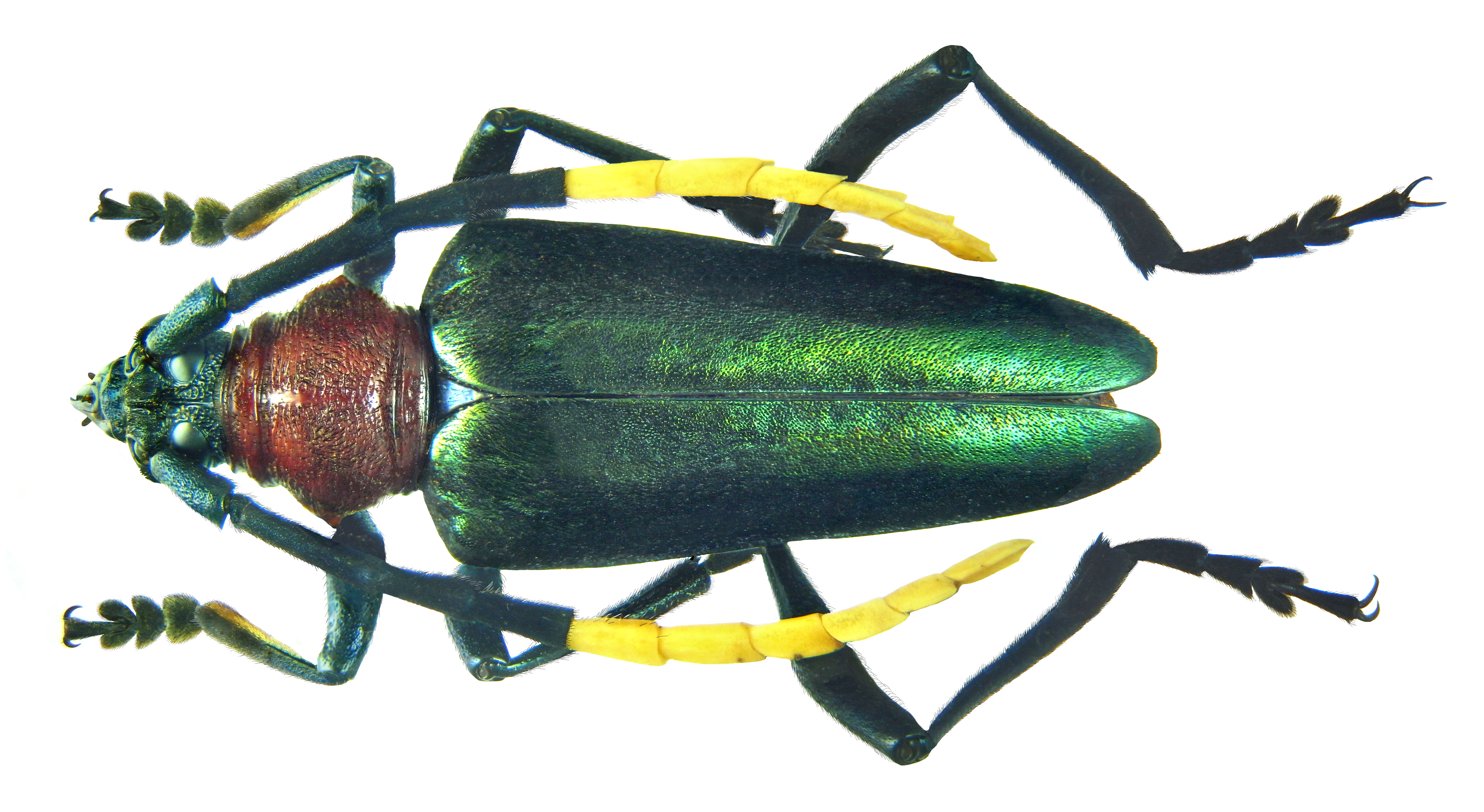 Family: Cerambycidae Size: 21 mm Location: Malaysia, Cameron Highlands leg. VI.1978 Coll. Zool. Staatsslg. Muenchen Photo: U.Schmidt, 2013